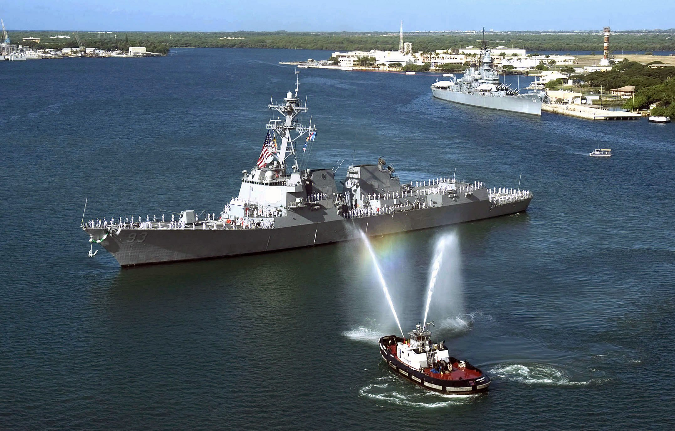 Pearl Harbor, Hawaii (Sept. 10, 2004) – Sailors man the rails aboard the Navy’s newest and most advanced Arleigh Burke-class guided missile destroyer USS Chung-Hoon (DDG 93), while passing the battleship USS Missouri in her new homeport of Pearl Harbor, Hawaii. After the arrival, the ship’s crew will prepare for their commissioning ceremony on Sept. 18. The ship is named in honor of Rear Adm. Gordon Paie'a Chung-Hoon, who was born and raised in Hawaii and awarded the Navy Cross and Silver Star for gallantry as Commanding Officer of USS Sigsbee during the Battle of Okinawa. Chung-Hoon was also assigned to USS Arizona during the Dec. 7, 1941 attack on Pearl Harbor.